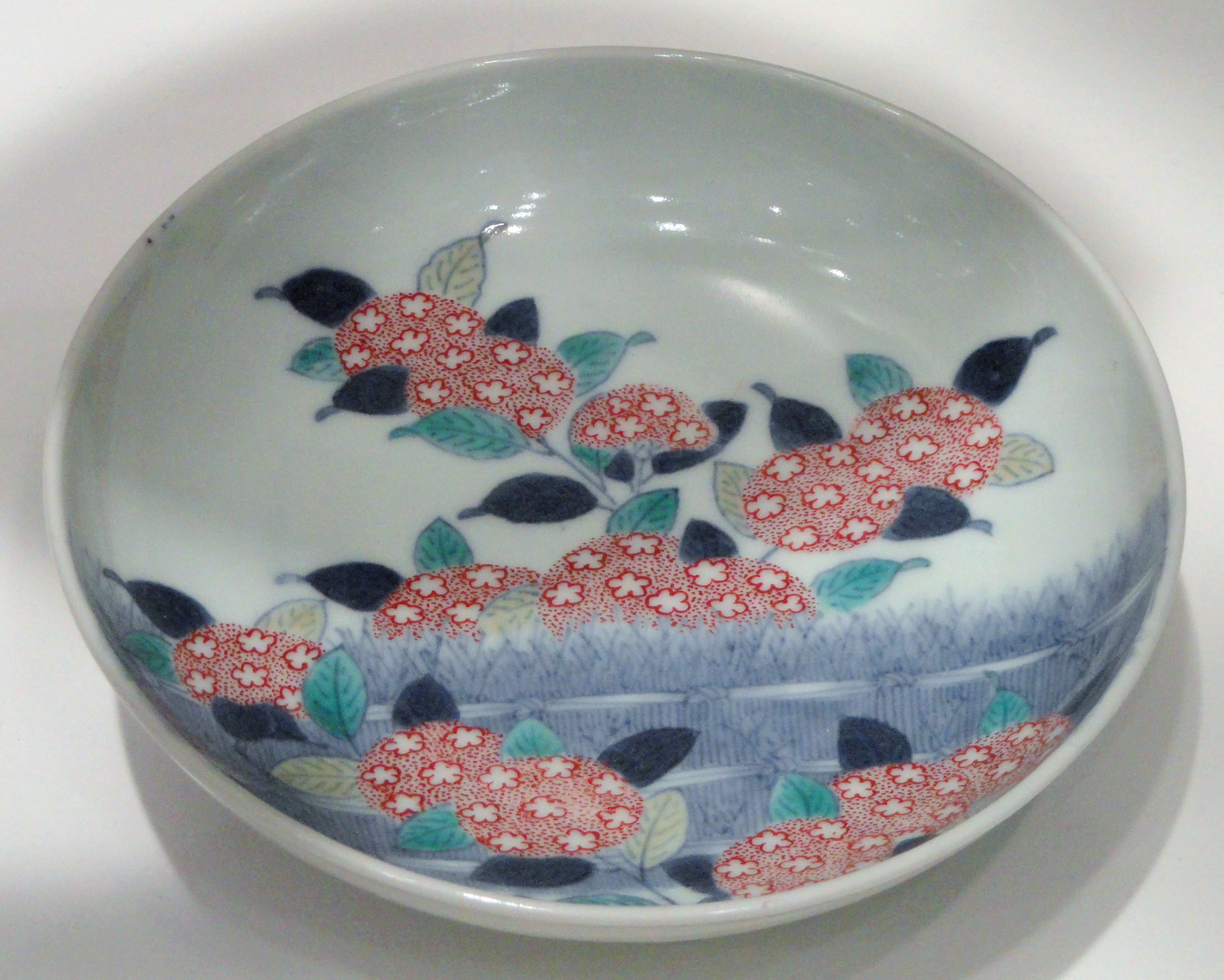 Exhibit in the Gardiner Museum, Toronto, Ontario, Canada. This artwork is in the public domain because the artist died more than 70 years ago.